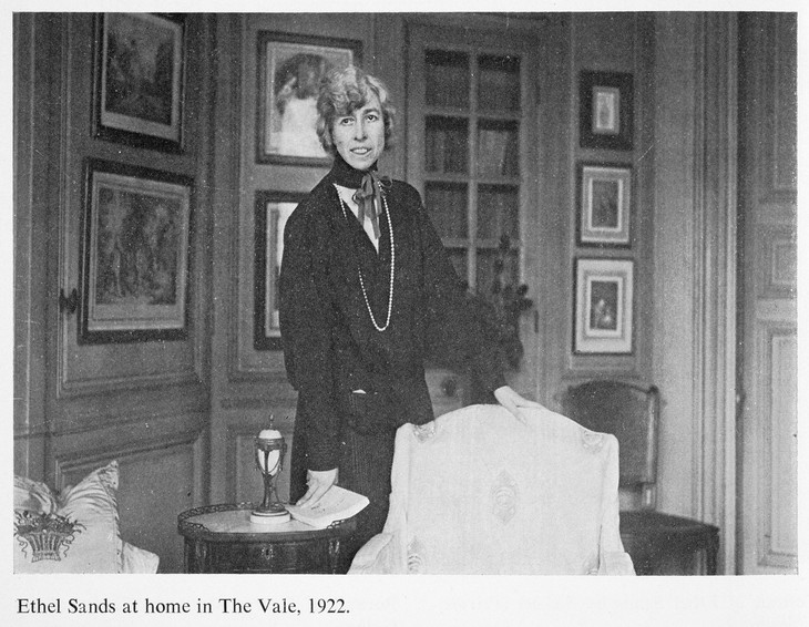 Ethel Sands at home in the Vale, Chelsea 1922, photograph, private collection